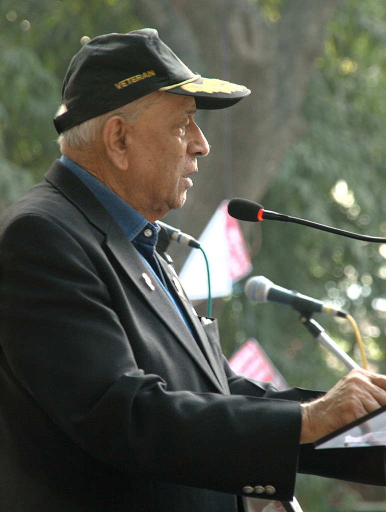 Admiral Ramdas in Delhi in November 2016